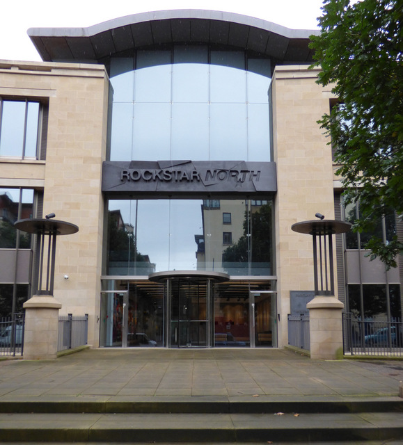 HQ for Scottish based games developer, Rockstar North, Scotland.